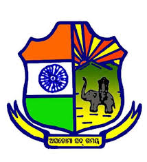 Emblem-A sign that identifies or represents the institute.